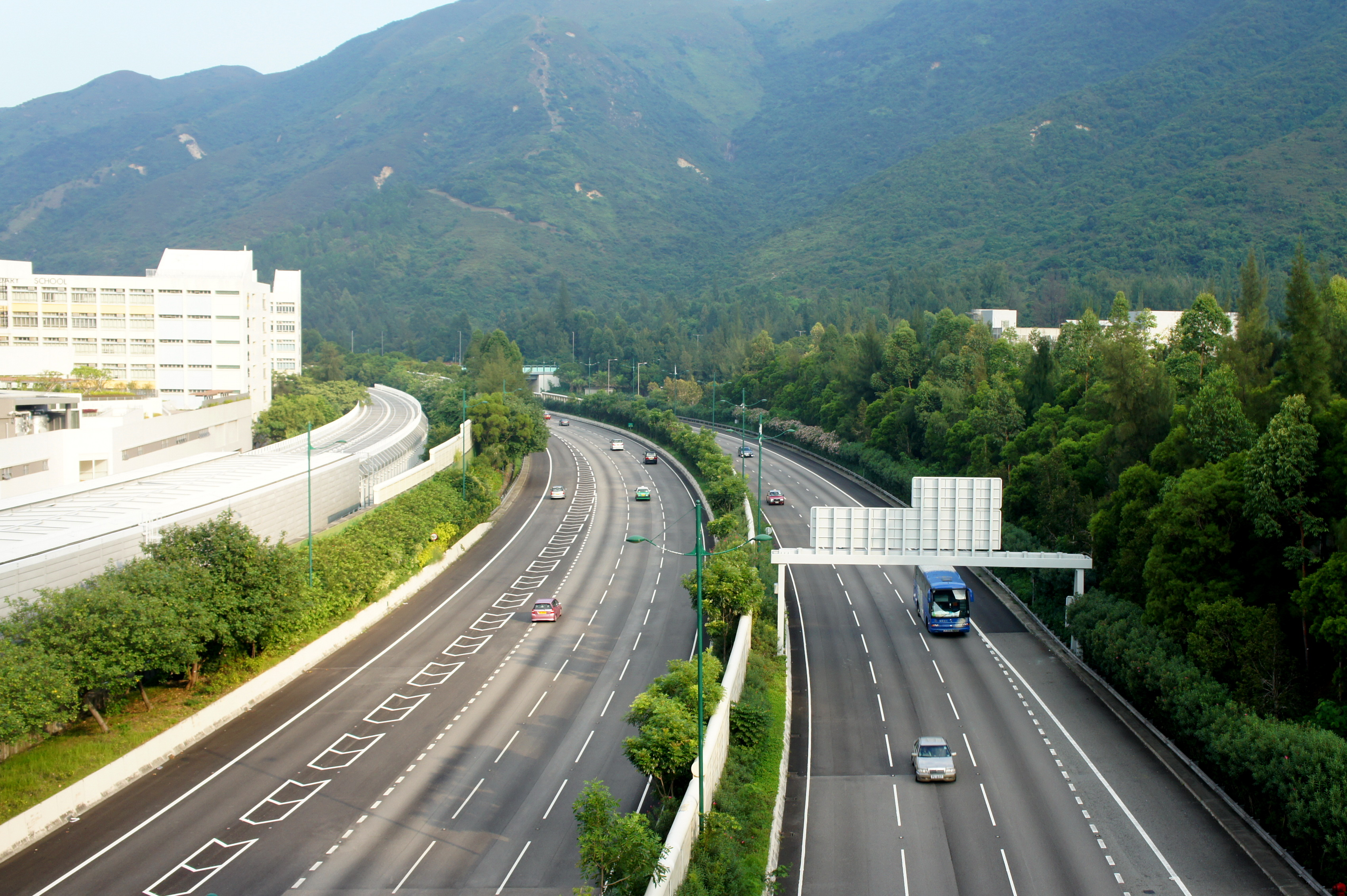 North Lantau Highway near Citygate Outlets, Tung Chung, New Territories, Hong Kong.